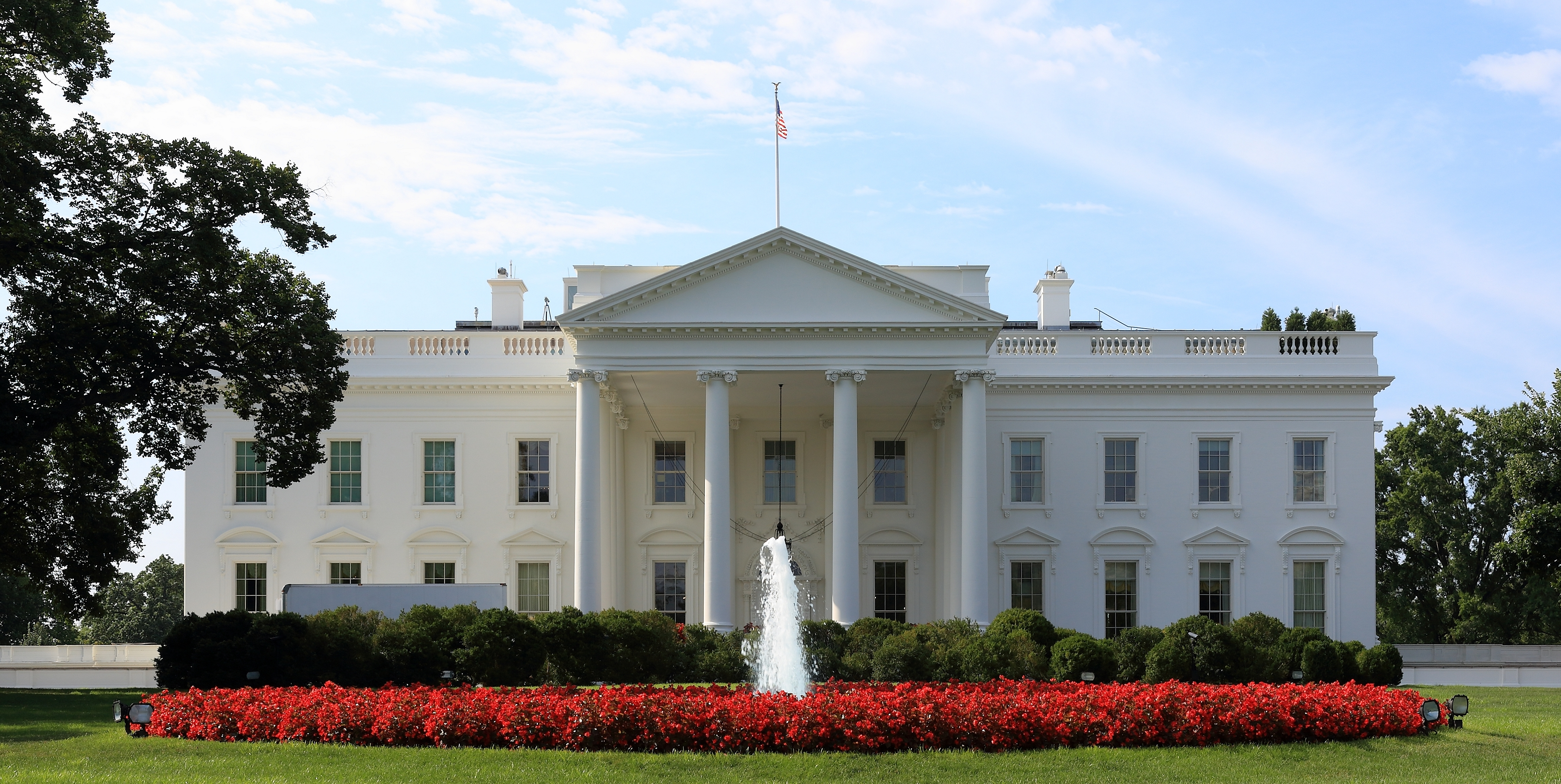 White House north side